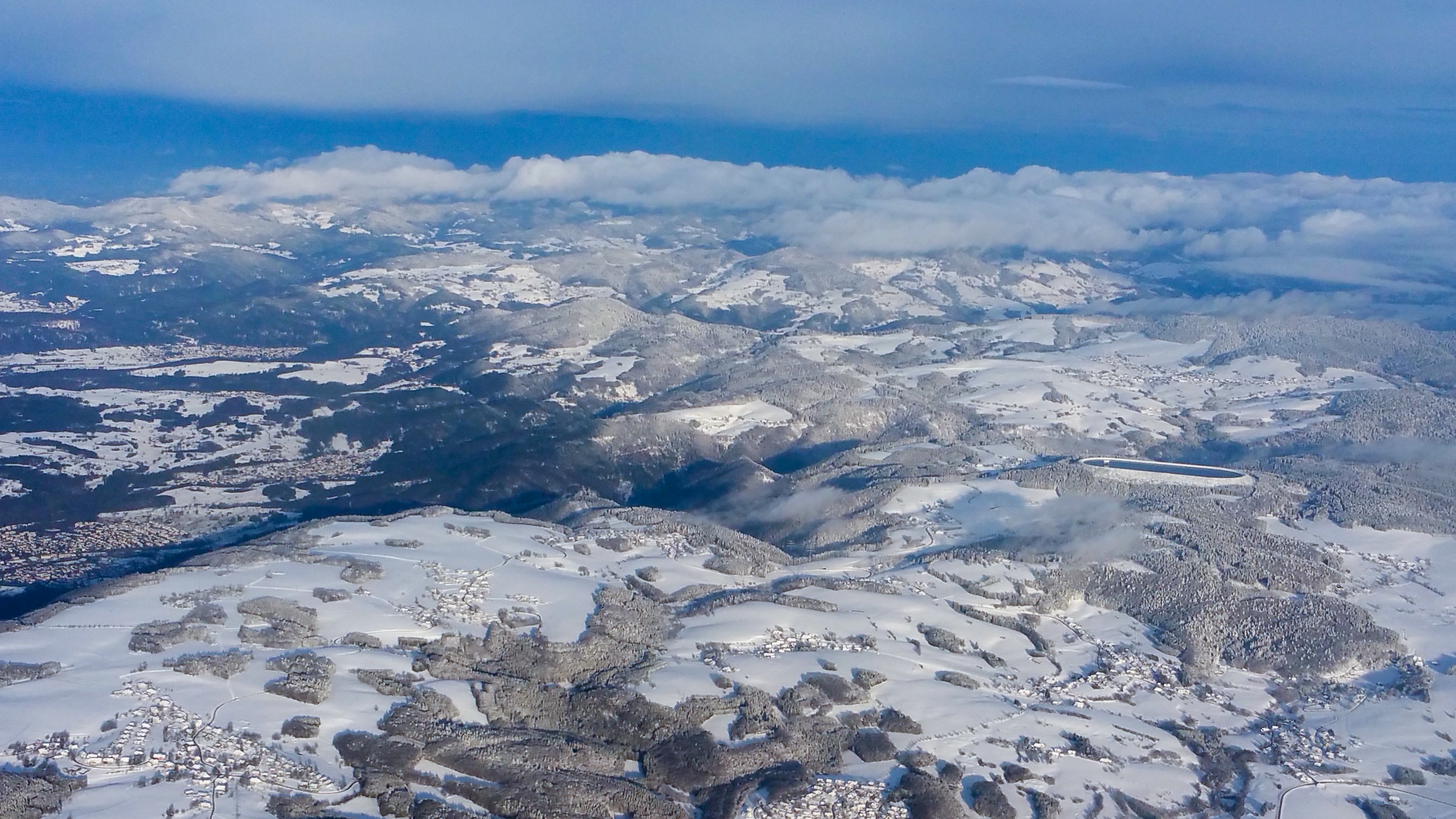 Germany, approach into ZRH across the Black Forest